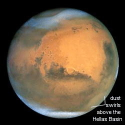 dust storm hellas basin, mars